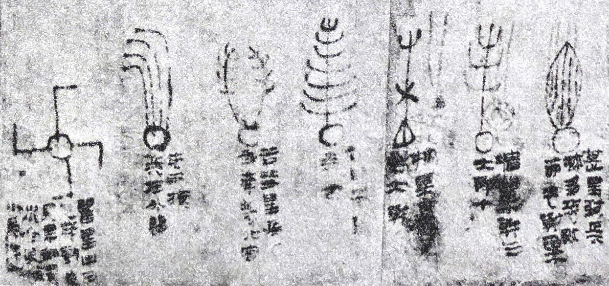 Detail of Astrology Manuscript, ink on silk, BCE 2th century, Han, unearthed from Mawangdui tomb 3rd, Chansha, Hunan Province, China. Hunan Province Museum